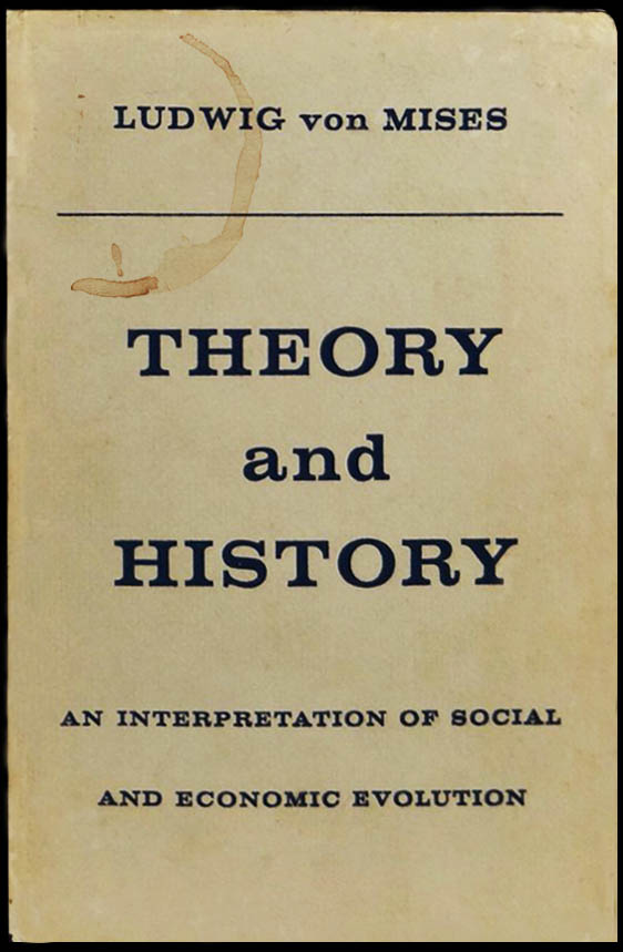 Front cover of Theory and History (1957)